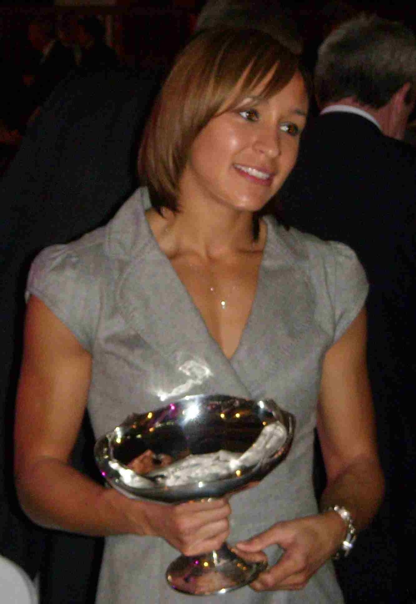 Jessica Ennis receives the Award for "Sportswoman of the Year" from the Sports Journalists' Associatoion 9-12-2009